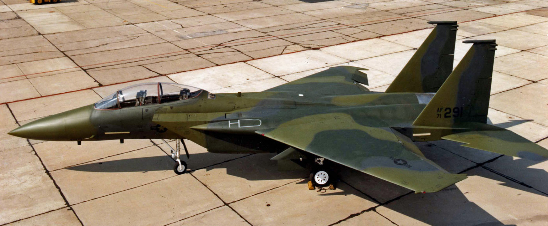 McDonnell Douglas F-15E Prototype. Side view of prototype F-15E (converted F-15B, S/N 71-0291).